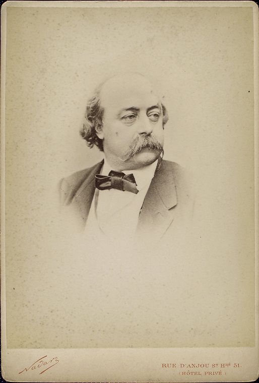 French writer Gustave Flaubert photo portrait